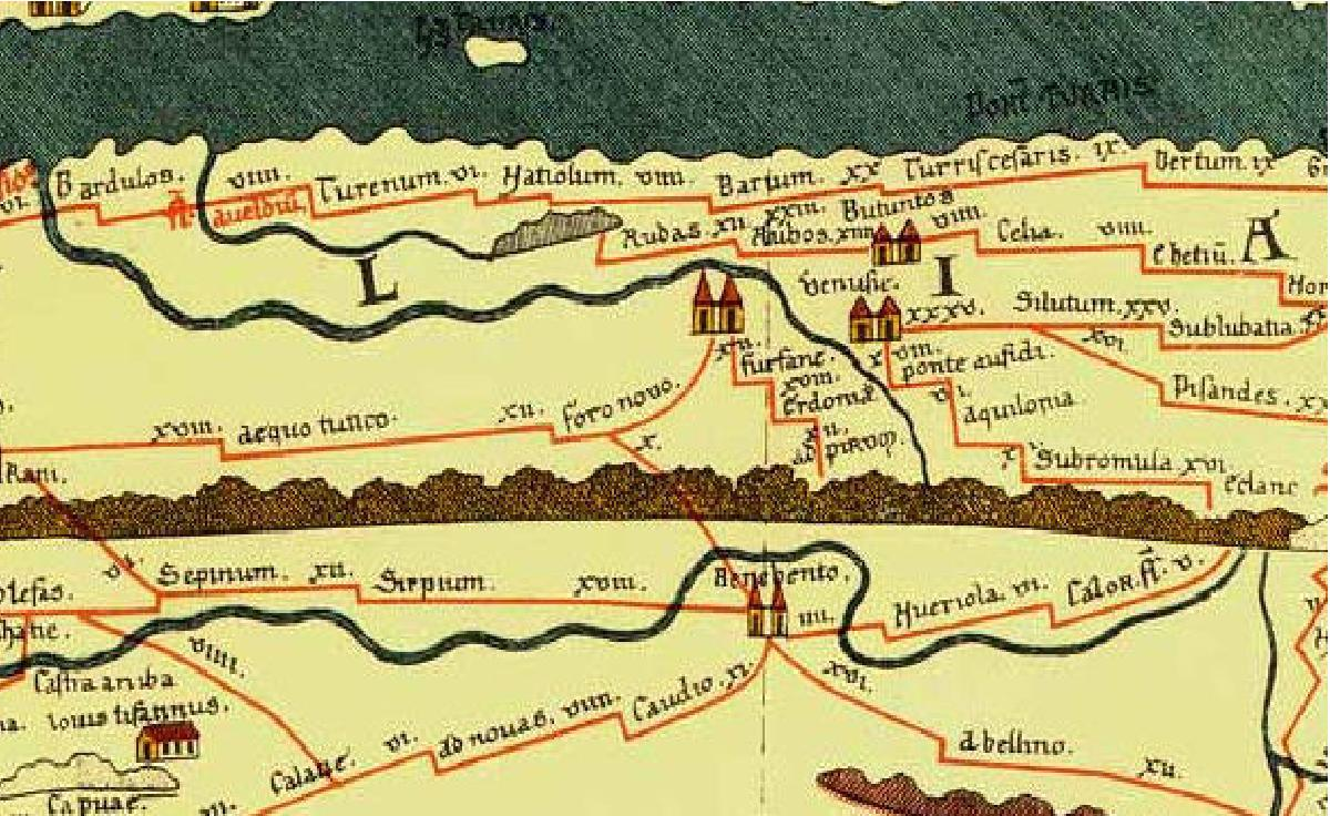 Peutingerian Table, a particular that show ancient Aufidus and Via Appia.